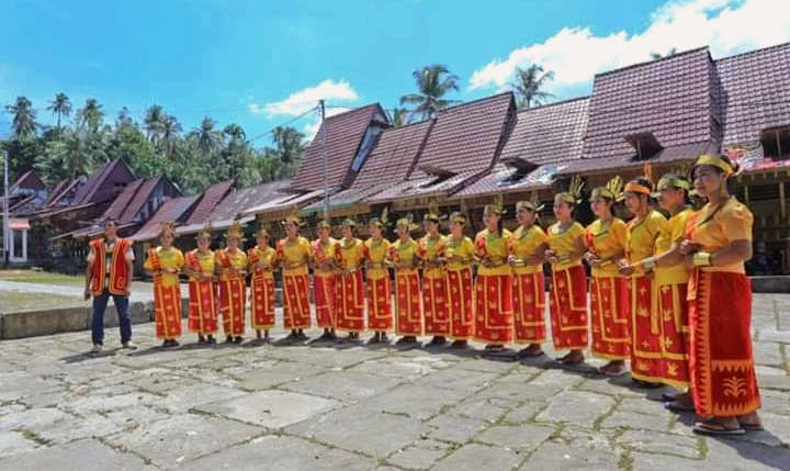 Expression error: Unrecognized word "desa".Expression error: Unrecognized word "desa".